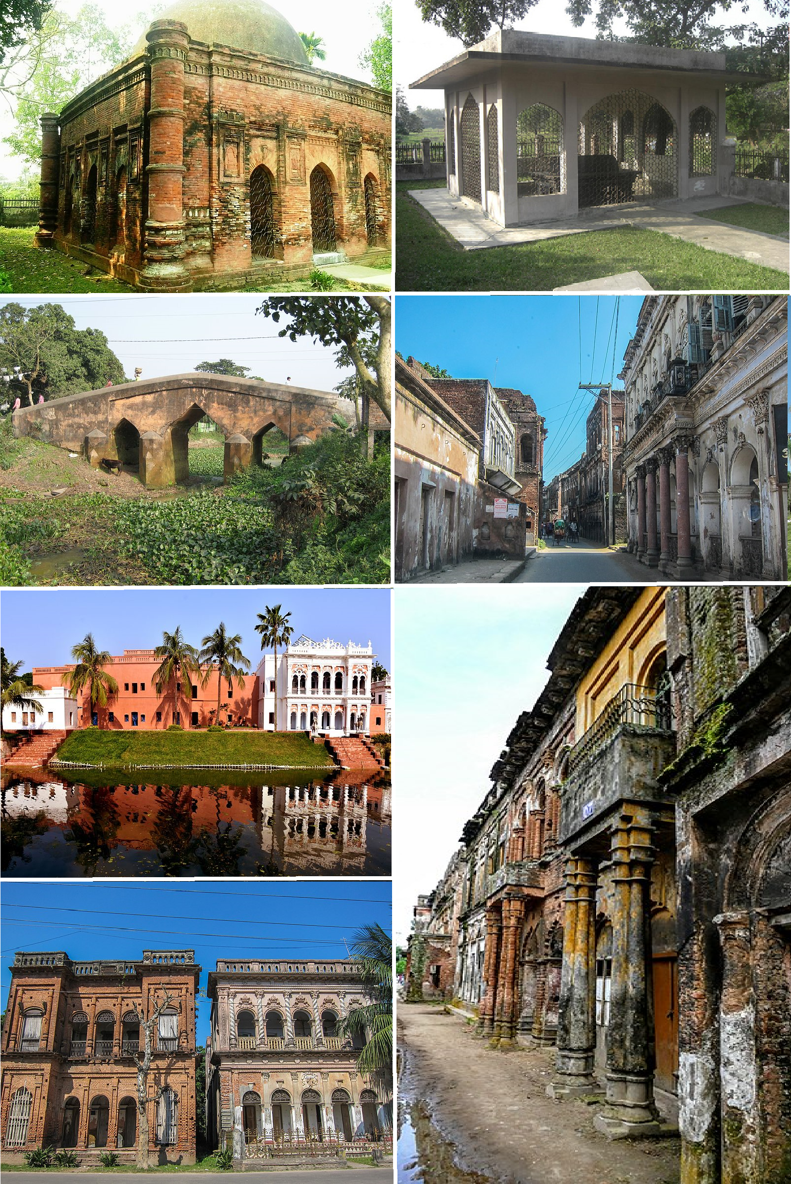 Montage of Sonargaon, Bangladesh